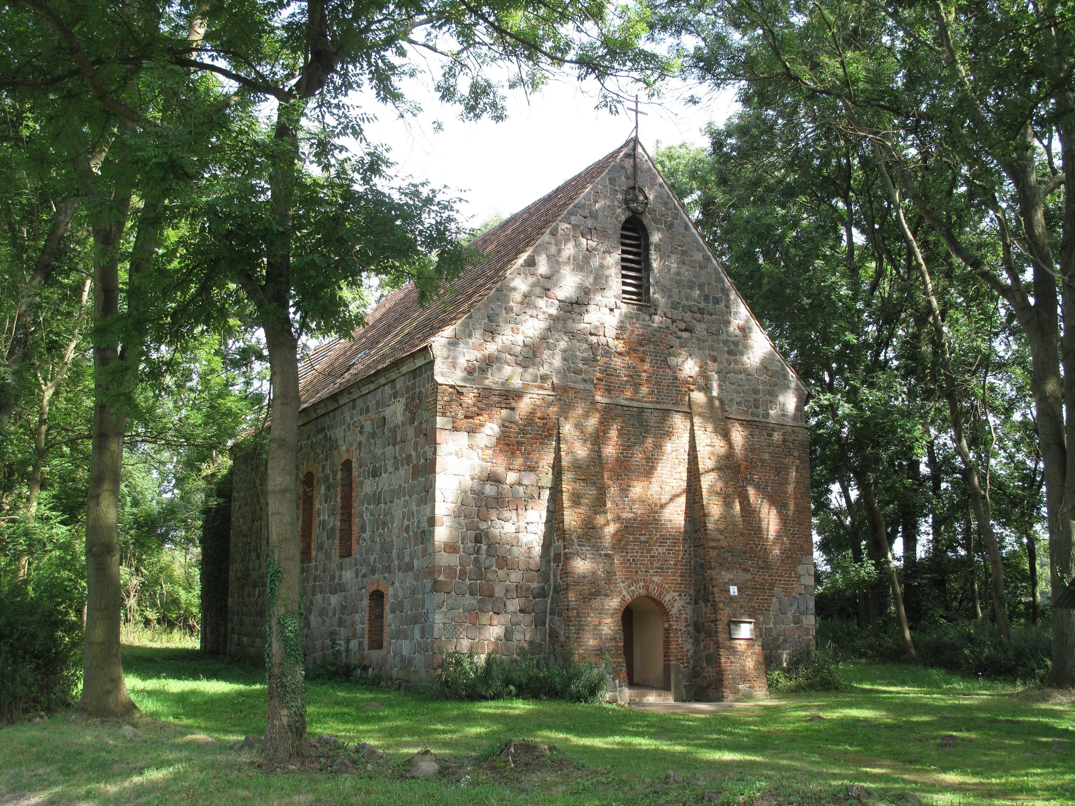 Listed village and Fieldstone church in Grunow, a village of the municipality Oberbarnim in the District Märkisch-Oderland, Brandenburg, Germany. The church was built in the 13th-century. It has the unusually high number of seven Schachbrettsteinen (german for: chessboard stones) and an in this region unique stone with the Jerusalem cross.